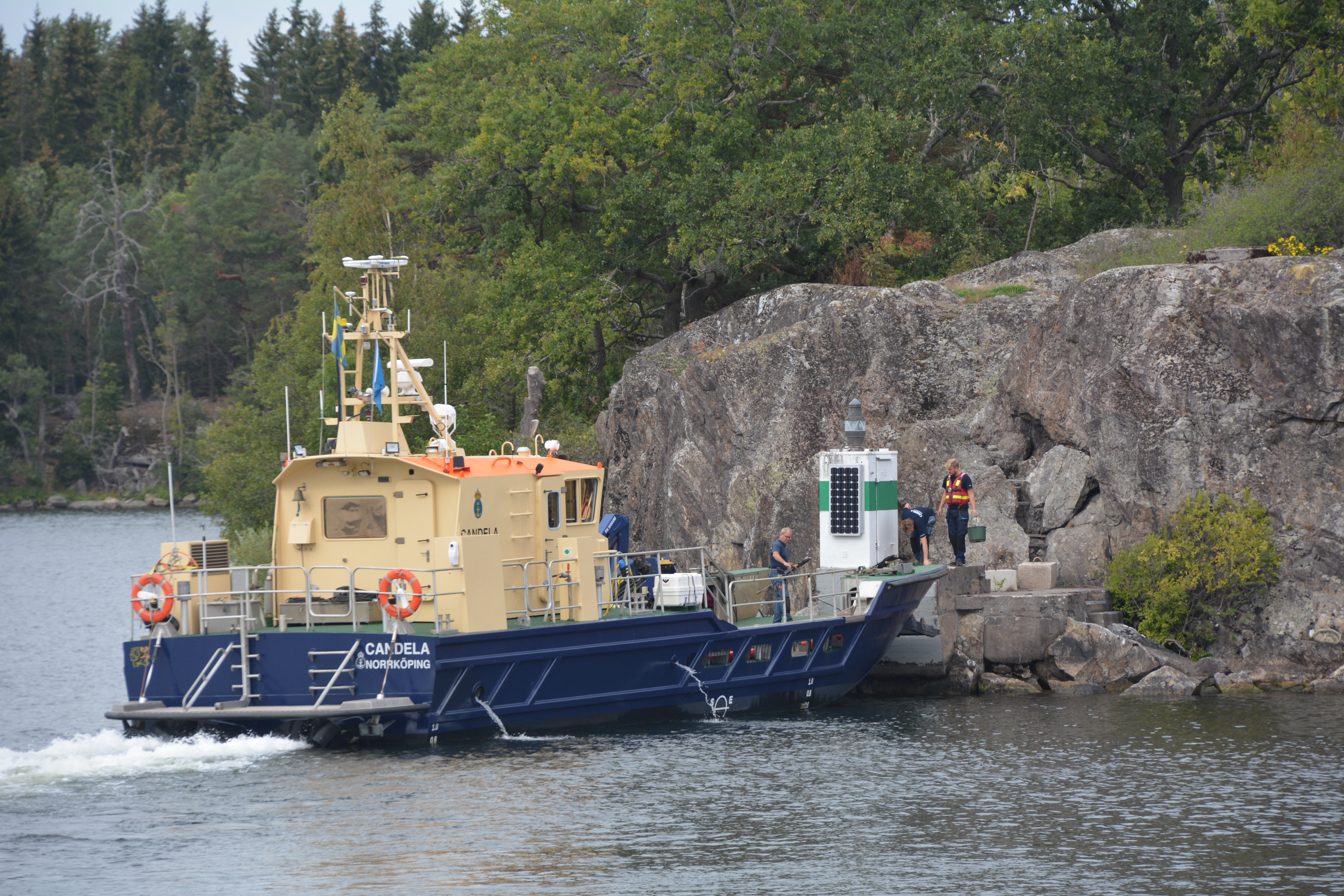 Sjöfartsverkets arbetsbåt Candela servar fyren på ön Fläsket i Mälaren, september 2018